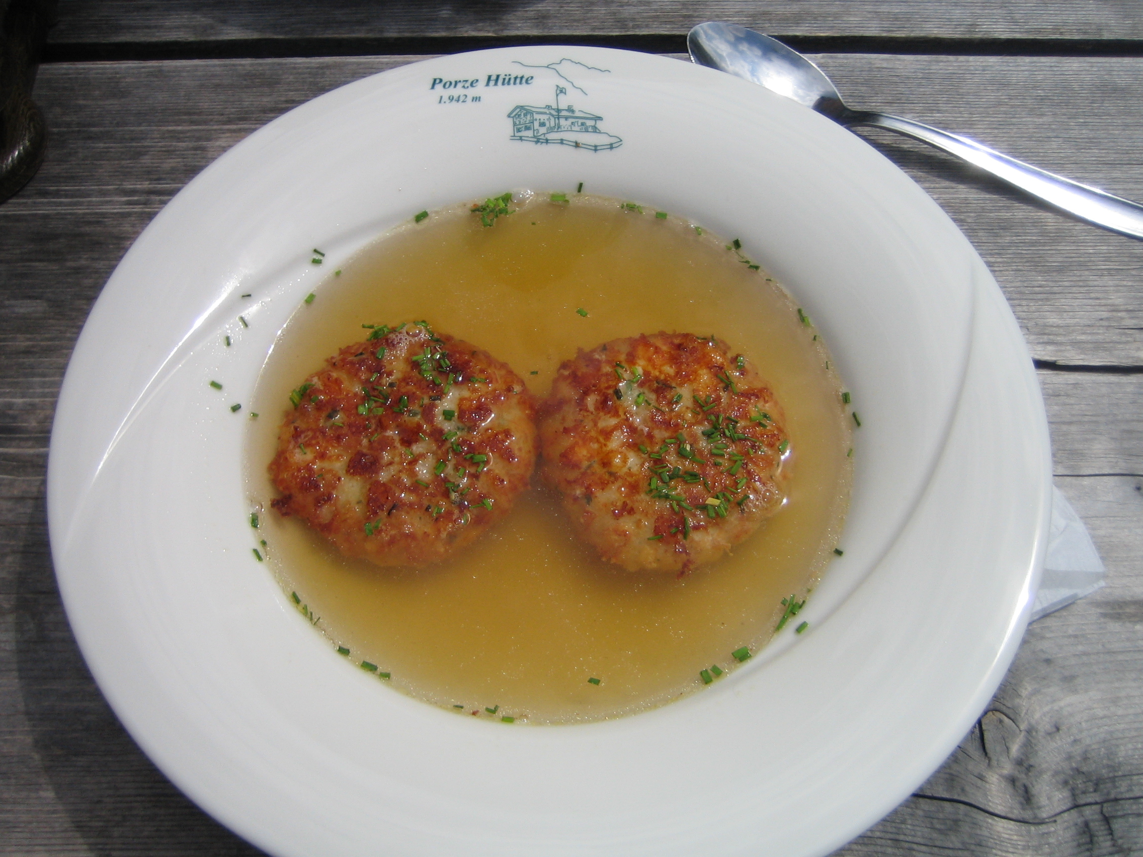 Kaspressknoedel soup, typical tyrolean meal. Cheese dumpling in a soup